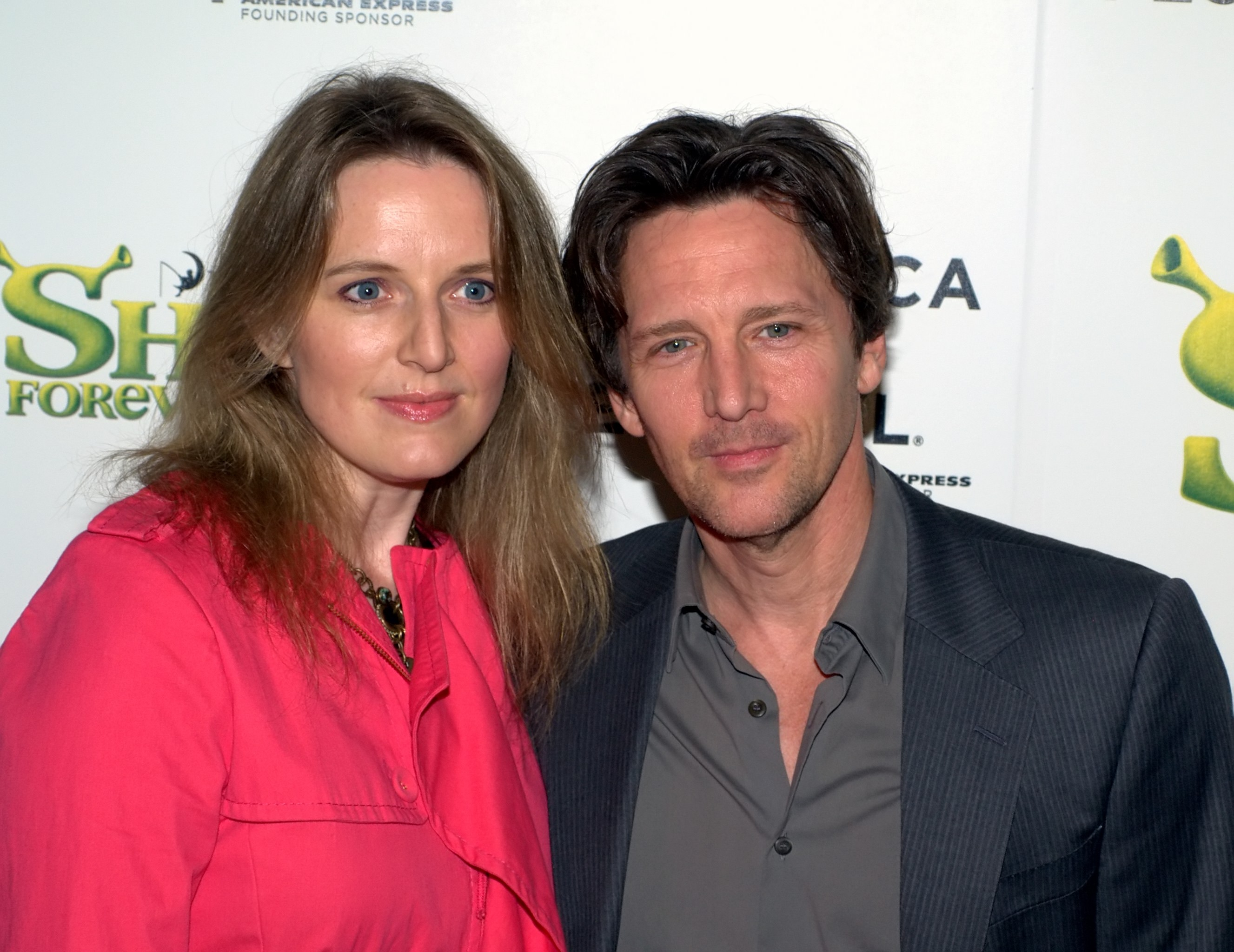 Dolores Rice and Andrew McCarthy at the 2010 Tribeca Film Festival.